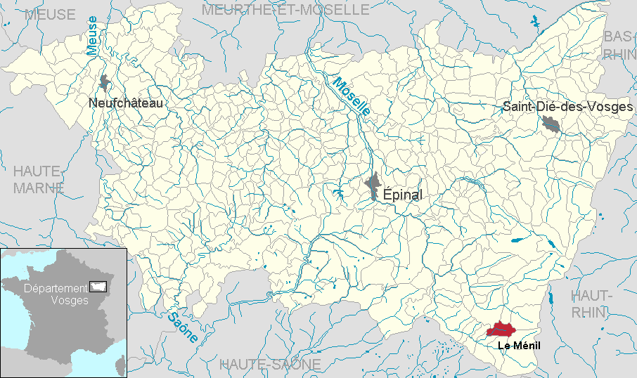 Le Ménil in the department of Vosges, Lorraine, France